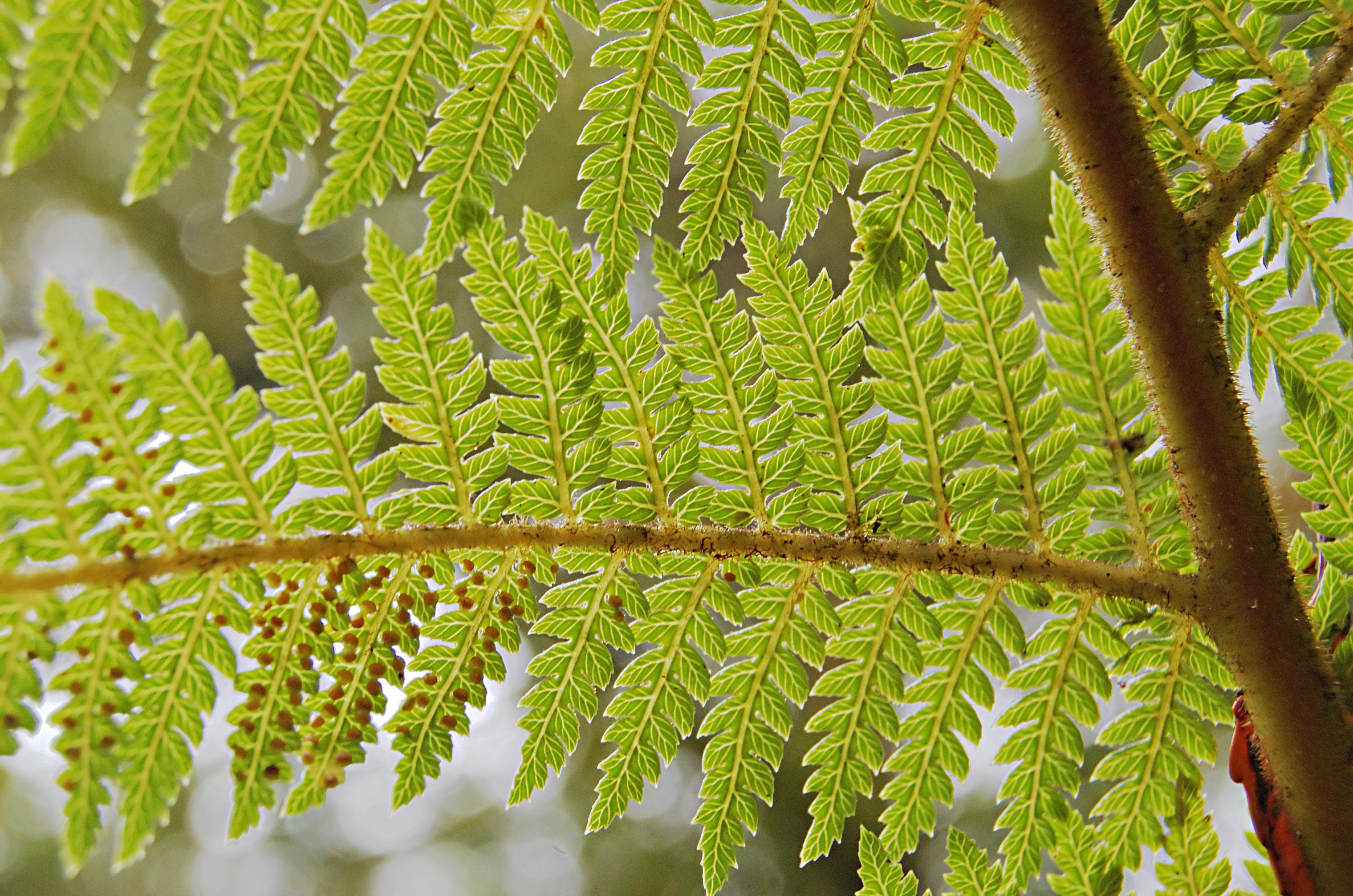 A closeup on fern leaves, some with spores showing in Rotorua, NZ